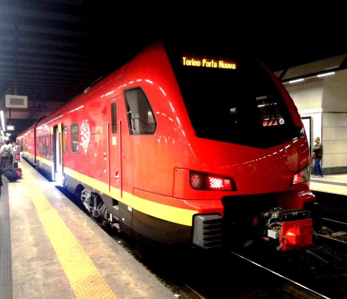 Stadler Flirt 3 BMU "BTR.813" at track 3 of Torino Porta Susa railway station